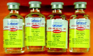 From: United States Department of Justice [1]